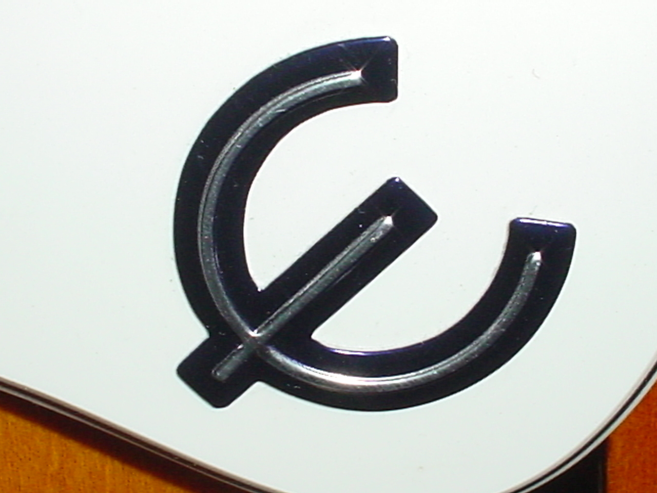 Epiphone Logo (Pick guard)